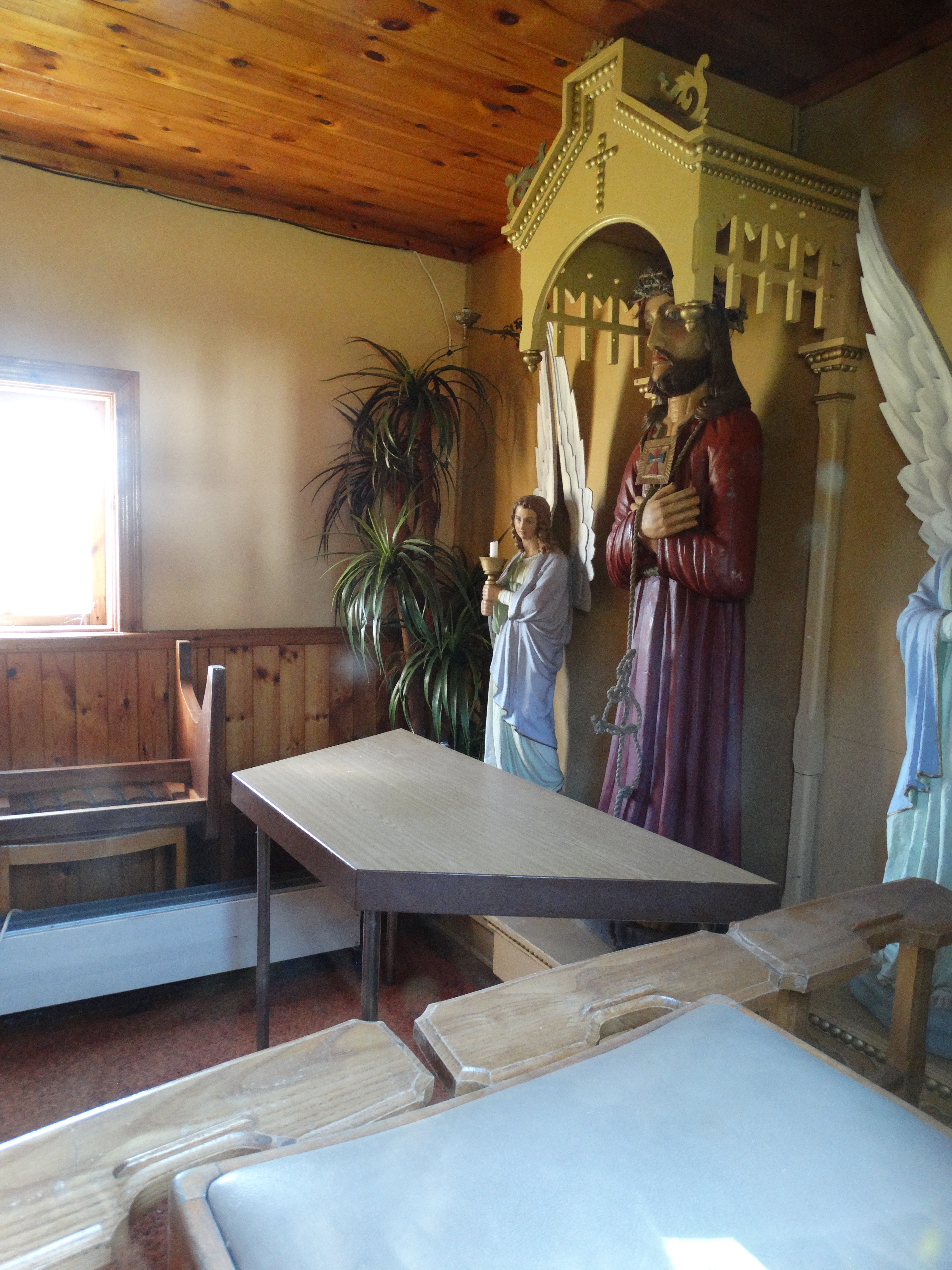 Catholic hurchyard, chapel, in Viduklė, Raseiniai district, Lithuania